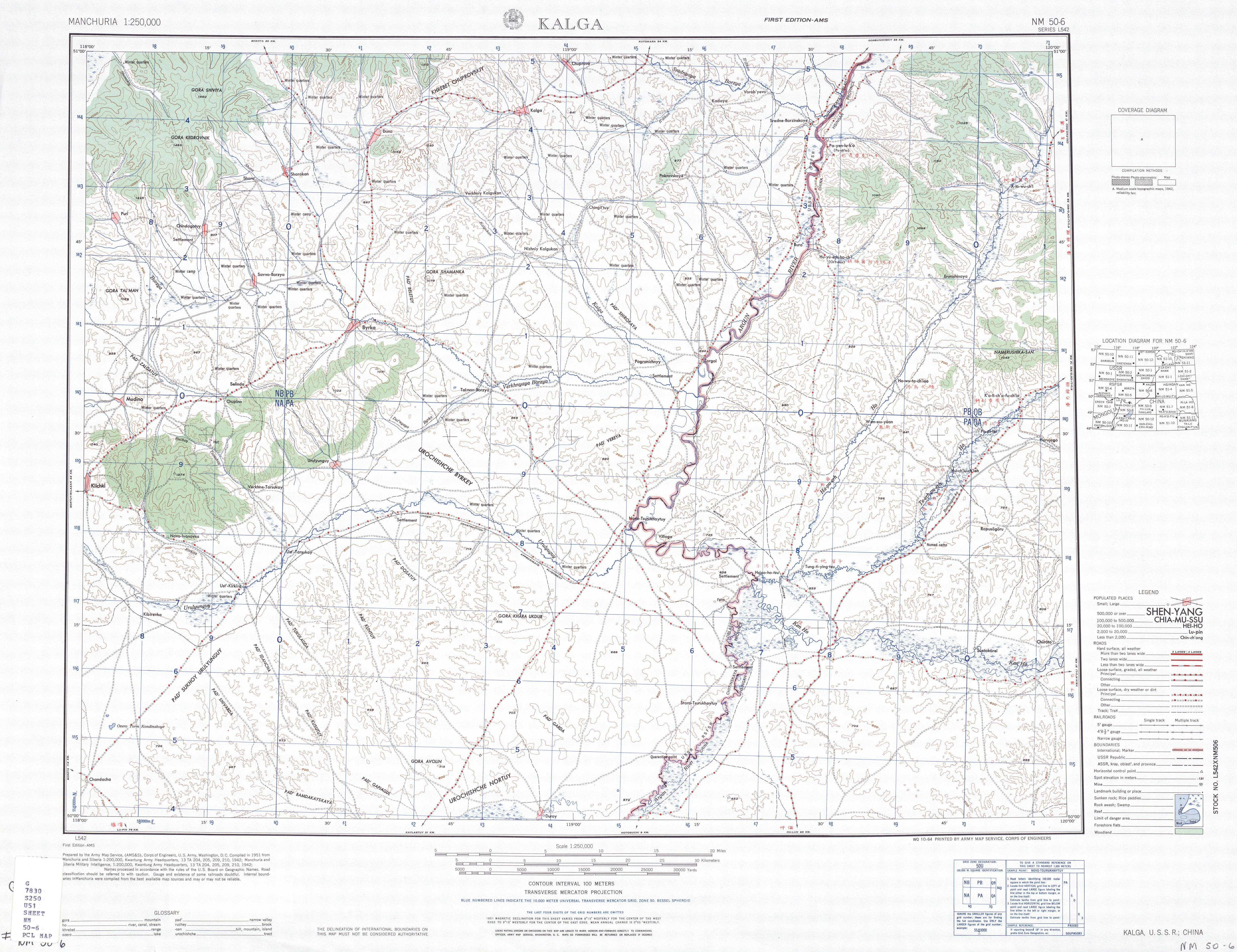 Maps of Kalga area, USSR (present-day Russia)